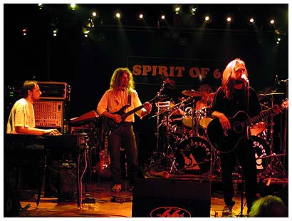 Belgian rock group Mindgames